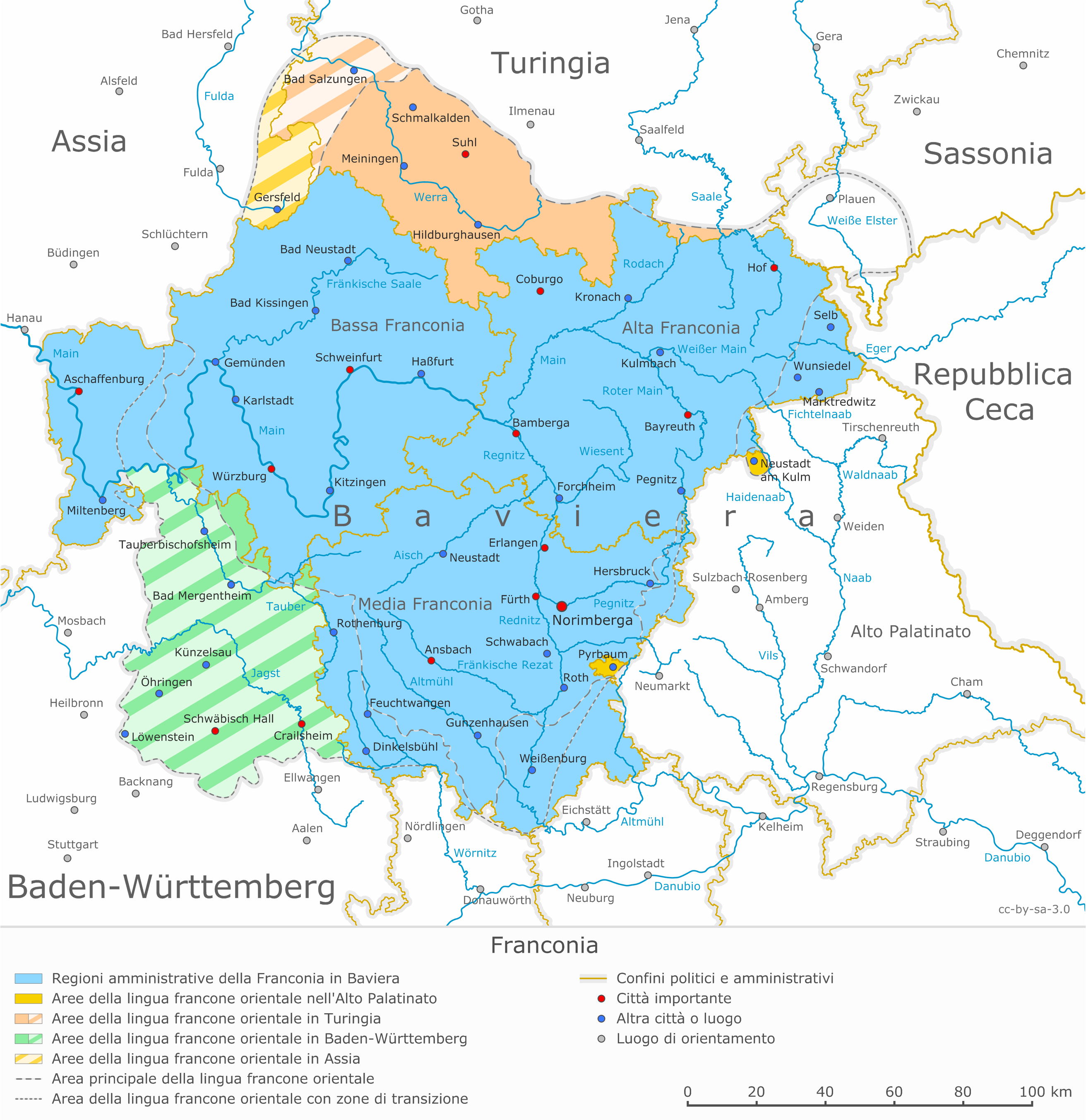 Franconia